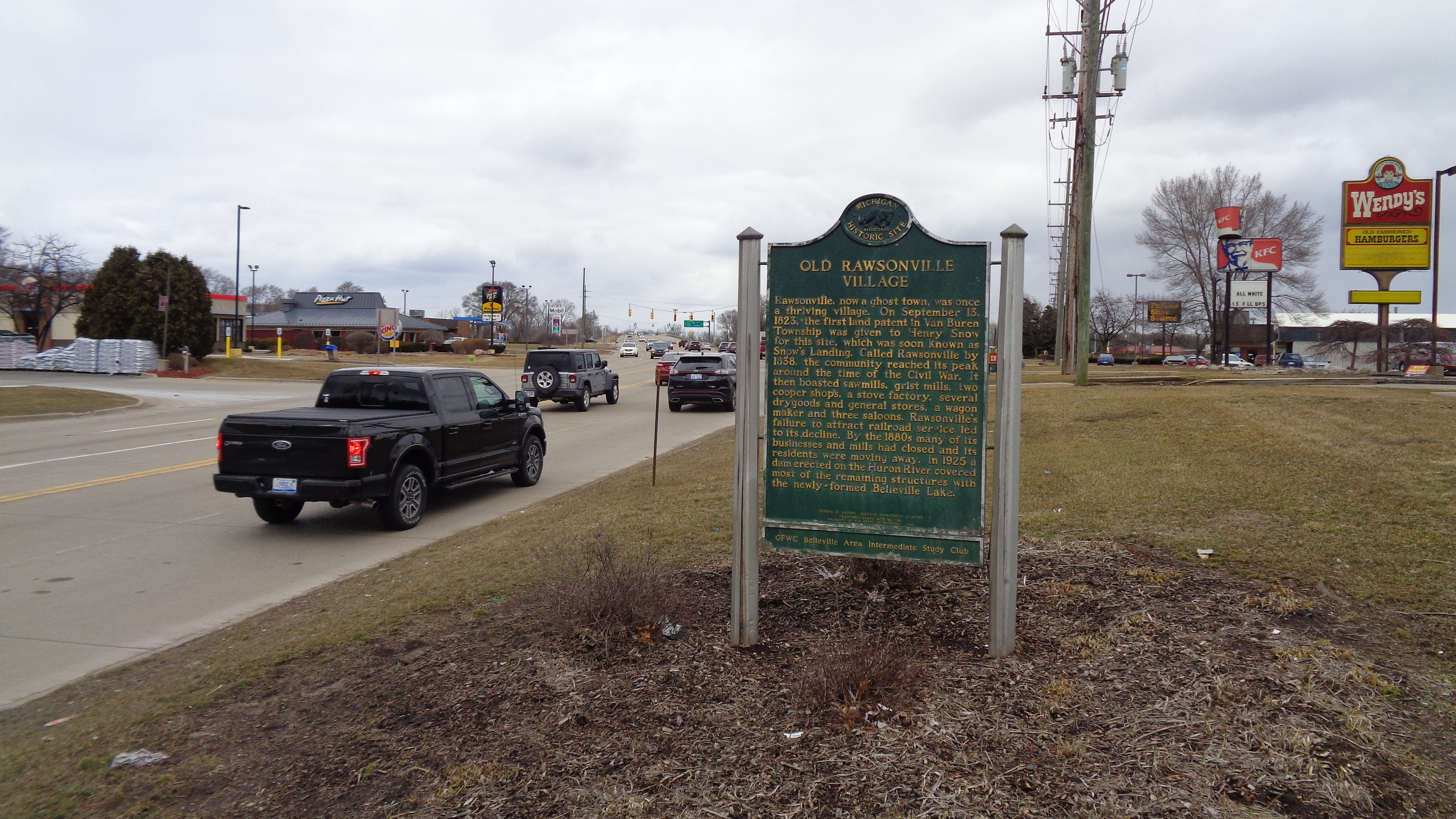 Rawsonville, MI